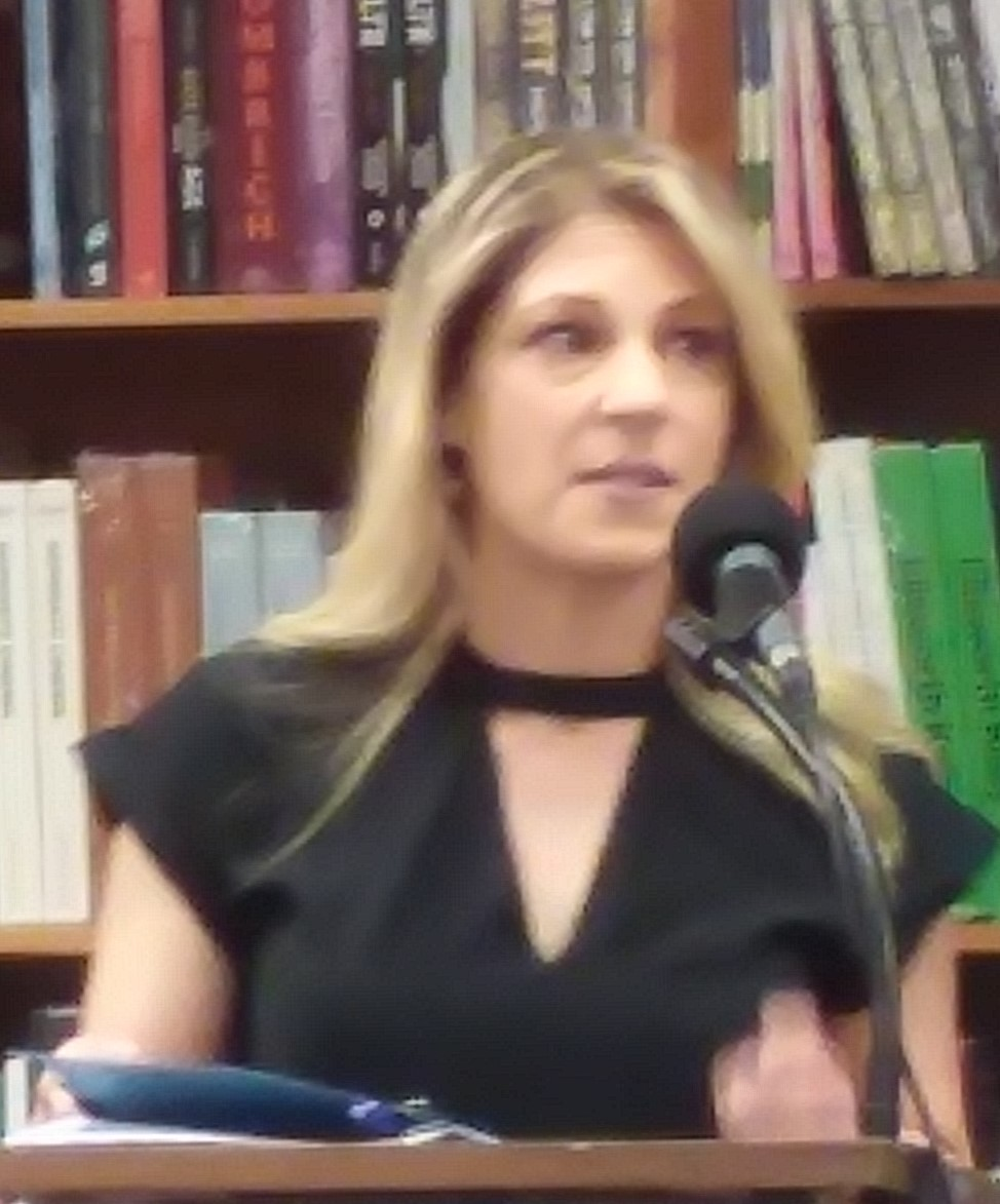 Alexandra Robbins at politics and prose, washington, d.c.